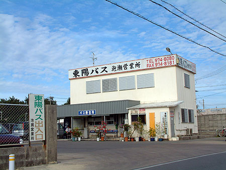 Tōyō Bus Awase Office, Maehara, Uruma, Okinawa Prefecture, Japan